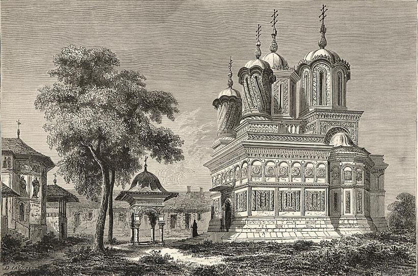 Curtea de Arges monastery (before restauration)